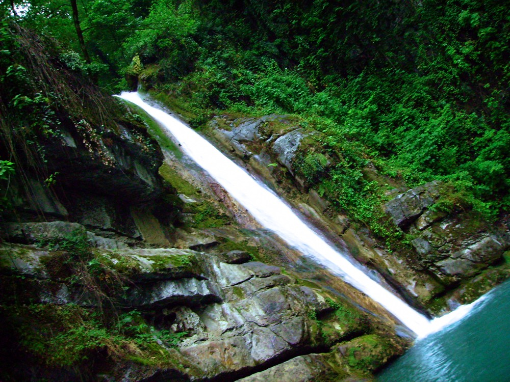 Shirabad Waterfall